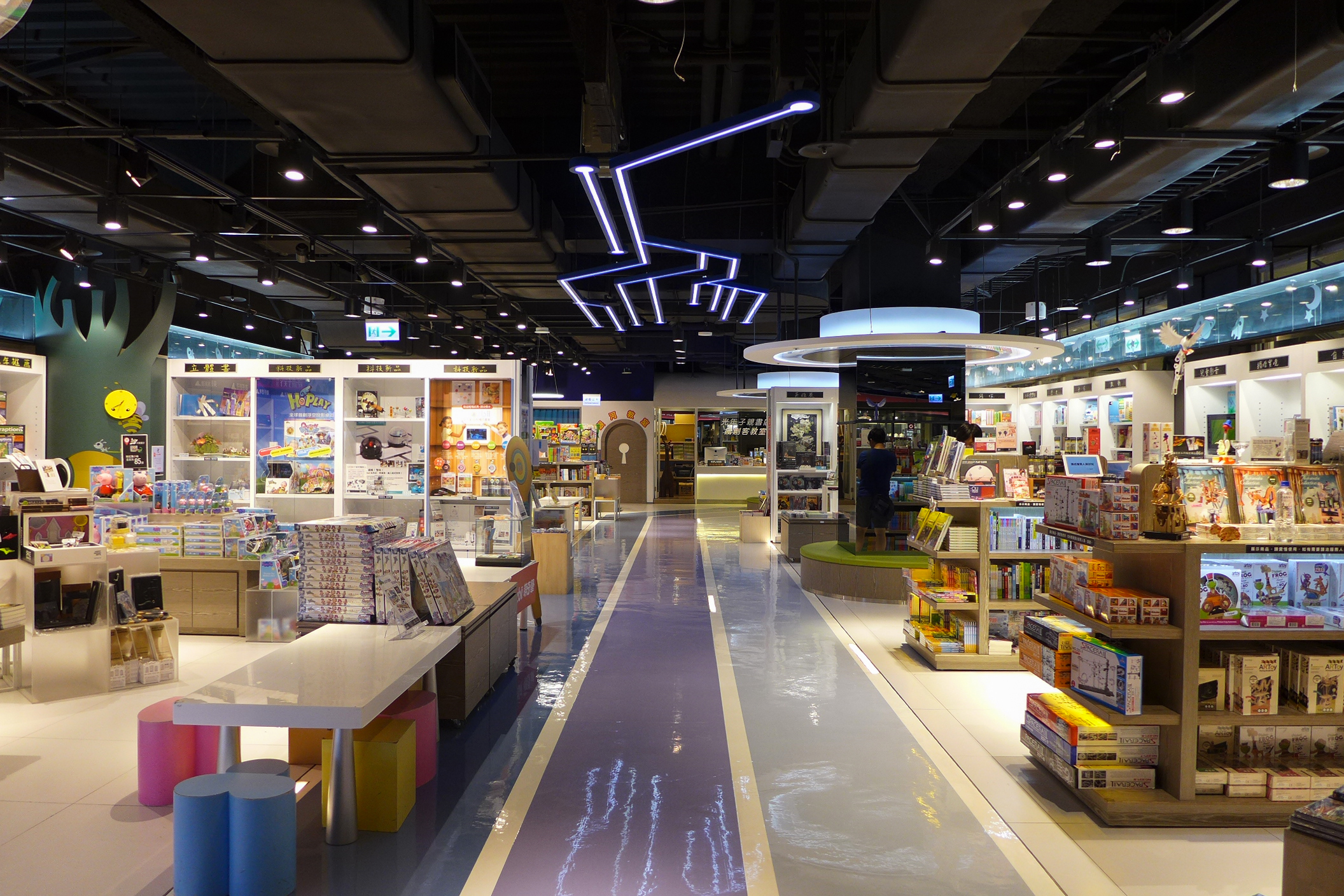 Syntrend Creative Park